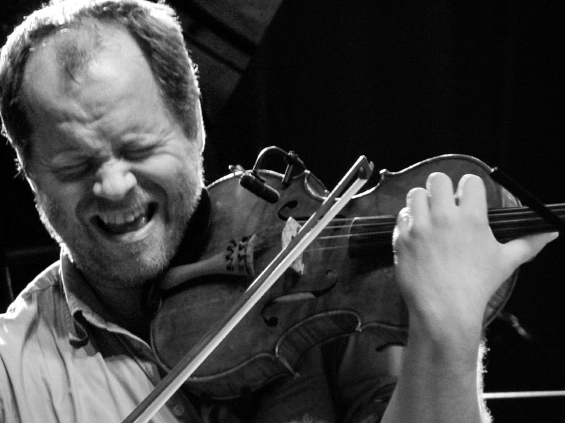 Bergmund Waal Skaslien @ Aarhus Jazz Festival (Denmark 2011)